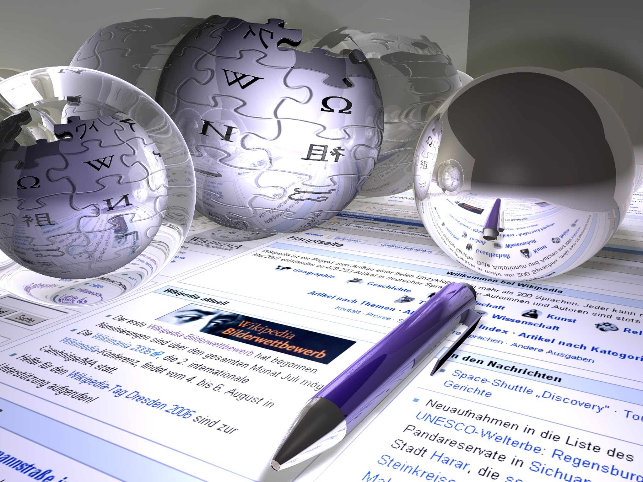 Wikipedia meets 3d in Cinema 4d with logo